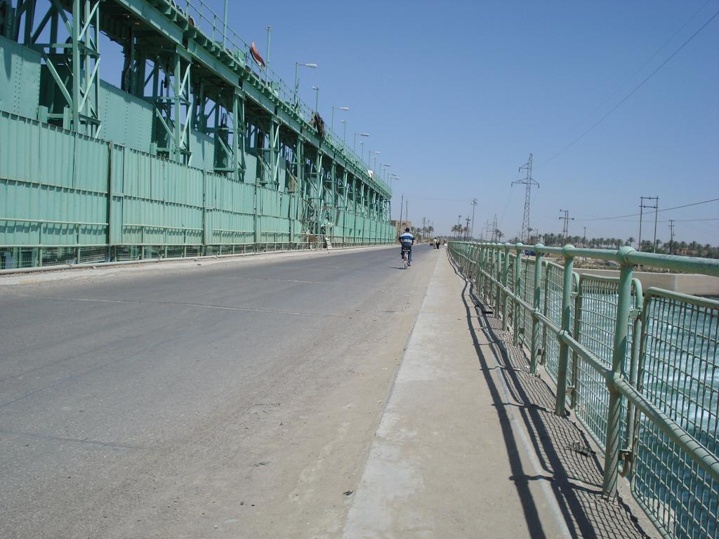 Al Jazeera (The Island) bridge